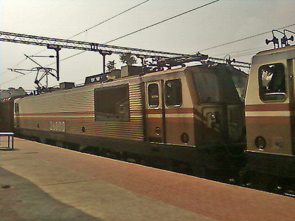 WAG-6A loco with a BCNA freight train at Vizianagaram